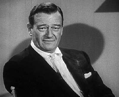 Screenshot of John Wayne from The Challenge of Ideas (1961) (Part 1), a PD movie.